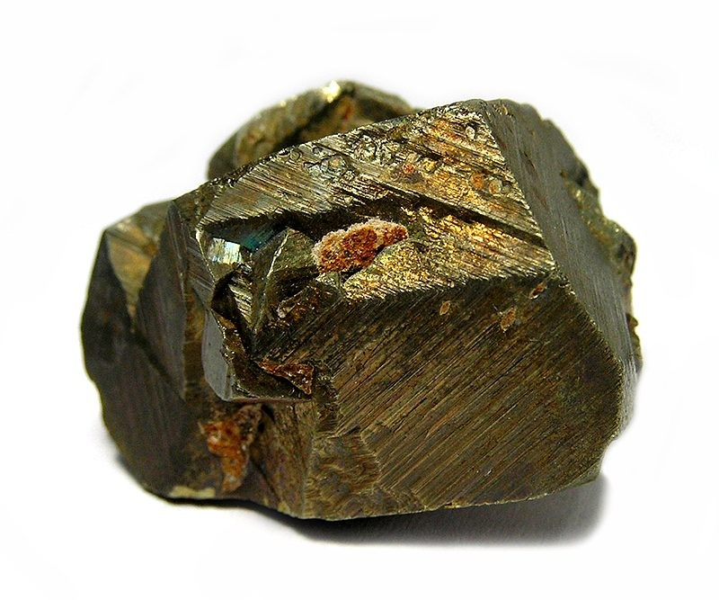 Chalcopyrite Locality: Alice Mine, Alice District, Clear Creek County, Colorado, USA (Locality at ) Once in the superb Colorado collection of Mitch Gunnell, this is a cluster of large, intergrown, brassy, lustrous, sharply twinned, chalcopyrite crystals. Super locality piece!!! 3.2 x 2.5 x 2.1 cm